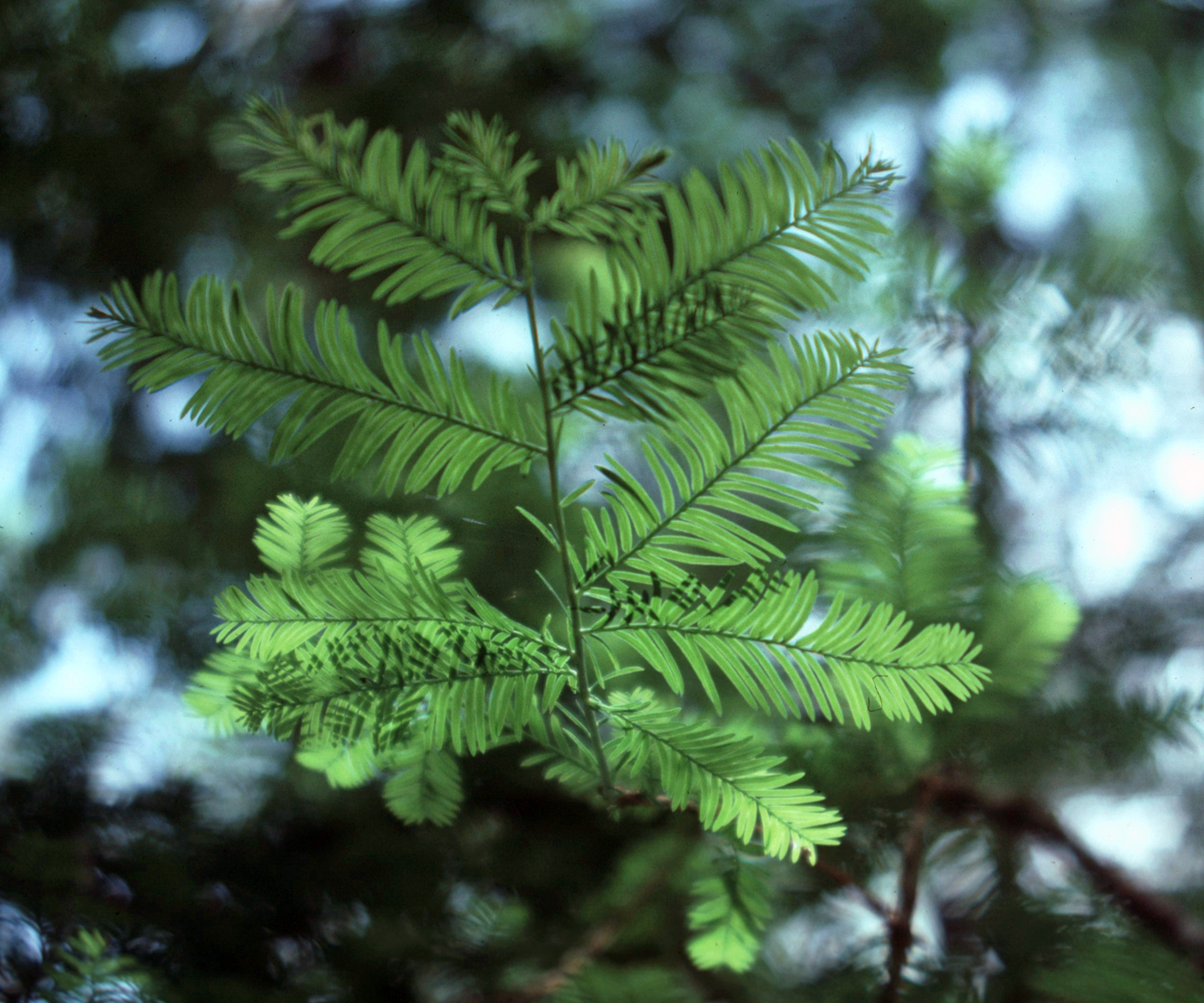 Florida yew, Gadsden County, Florida, United States